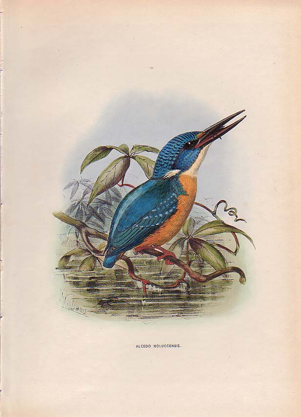 Alcedo meninting by Keulemans